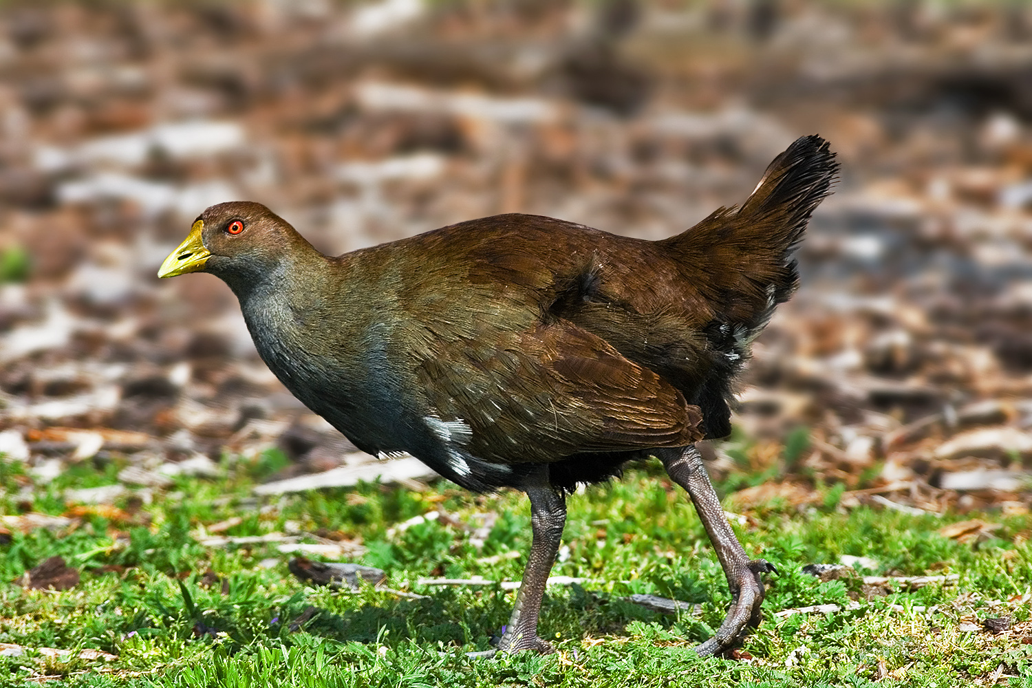 A Tasmanian Native-hen (Gallinula mortierii) grazing in Tasmania, Australia Camera data Camera Canon EOS 400D Lens Canon EF 400mm f5.6L Focal length 400 mm Aperture f/7.1 Exposure time 1/1600 s Sensivity ISO 400